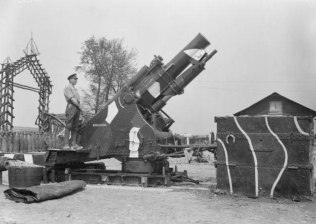 An unidentified British soldier standing with a 9.2 inch howitzer Mk I, named Berdameda, which was supporting the Australians on the Somme. The camouflaged box in front of the gun is known as a dirt box, which was filled with soil and attached to the gun to act as a counterweight to the force of the blast and keep the gun in position. Hanging on the side of the box is a horseshoe. Note in the background (left) a timber structure, probably an observation tower and rows of shells in front of the structure. Place made: France: Picardie, Somme Corbie